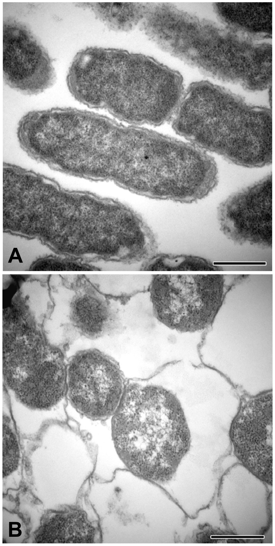 Figure 4. Transverse section of a transmission electron micrograph of actively growing (Panel A) and nonculturable (Panel B) Y. pestis. The arrow in panel B points to the enlarged periplasmic space. Magnification 10,000X, bar equals 0.5 microns.